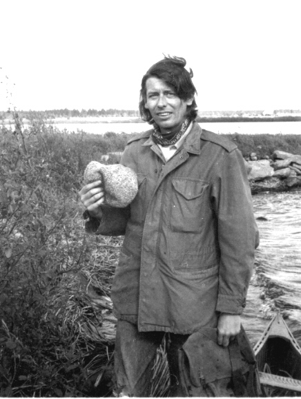 John Thompson on the Tantramar Marshes, 1971